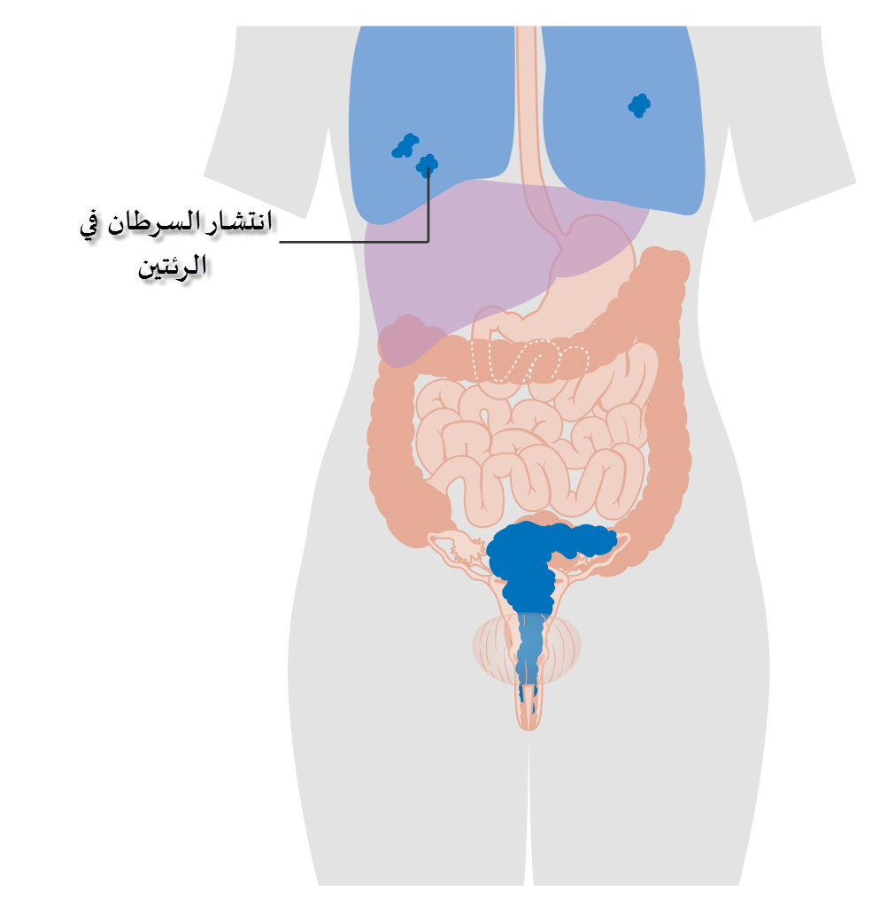 Diagram showing stage 4B cervical cancer.